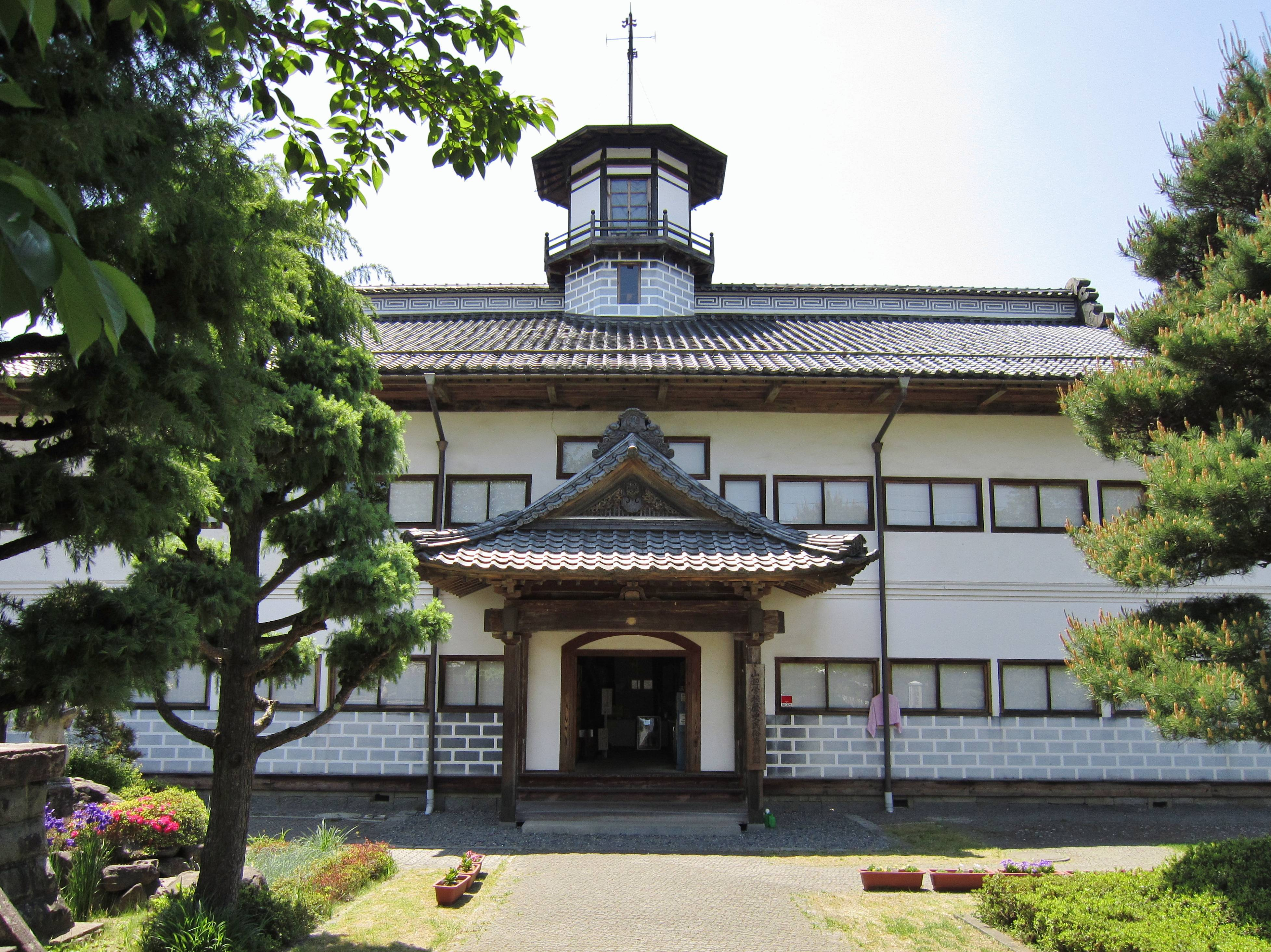 Former Yamabe School.